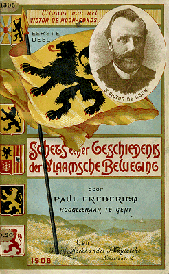 Frontispice of 'Schets eener geschiedenis der Vlaamsche Beweging', by Paul Fredericq